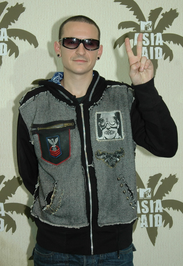 Chester Bennington at the MTV's Asia Aid.